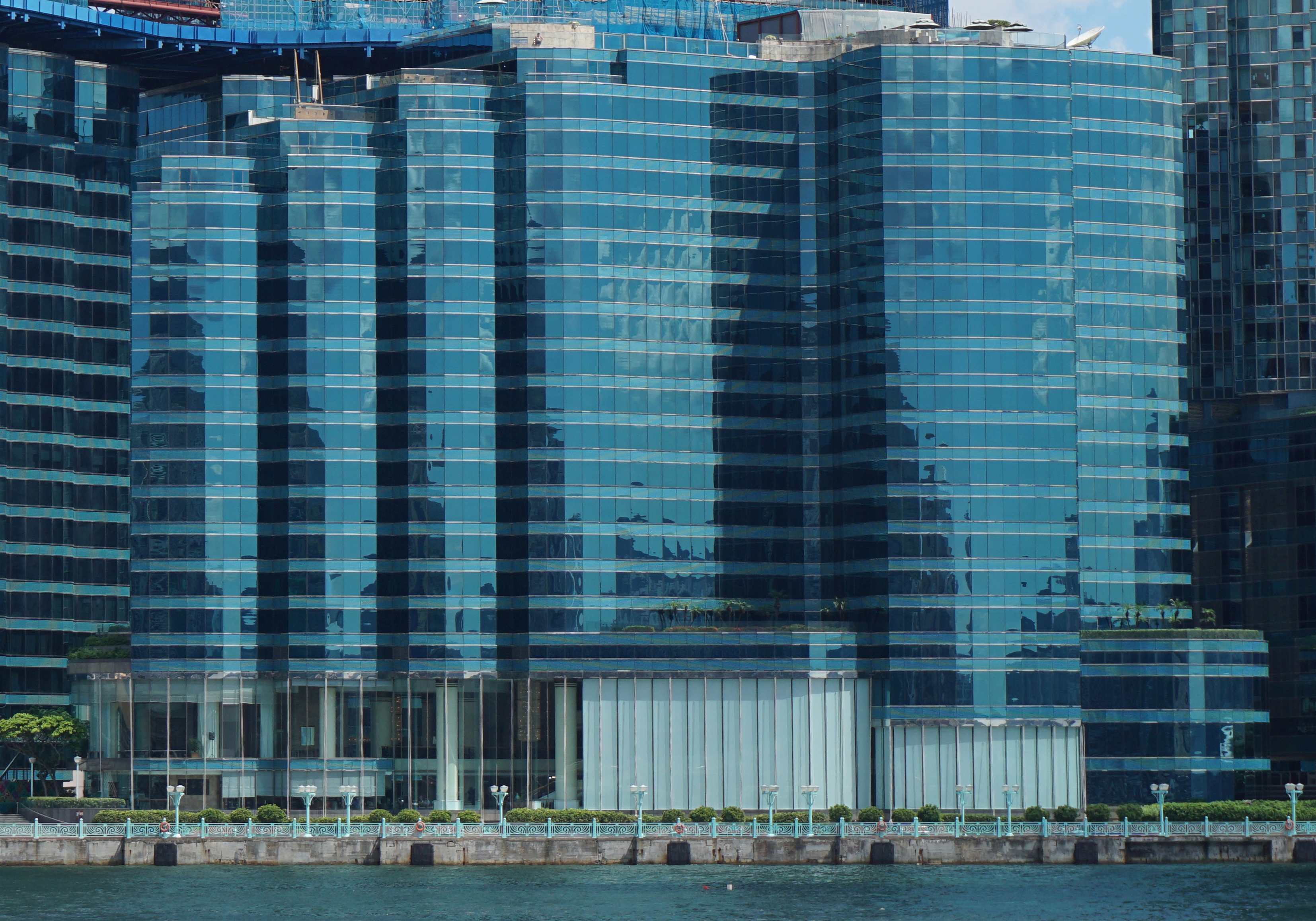 Harbour Grand Kowloon in Whampoa, Hong Kong.